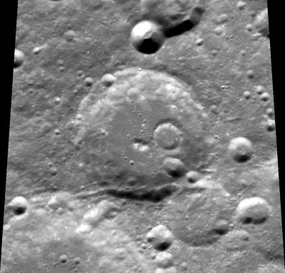 Paneth lunar crater - Clementine image